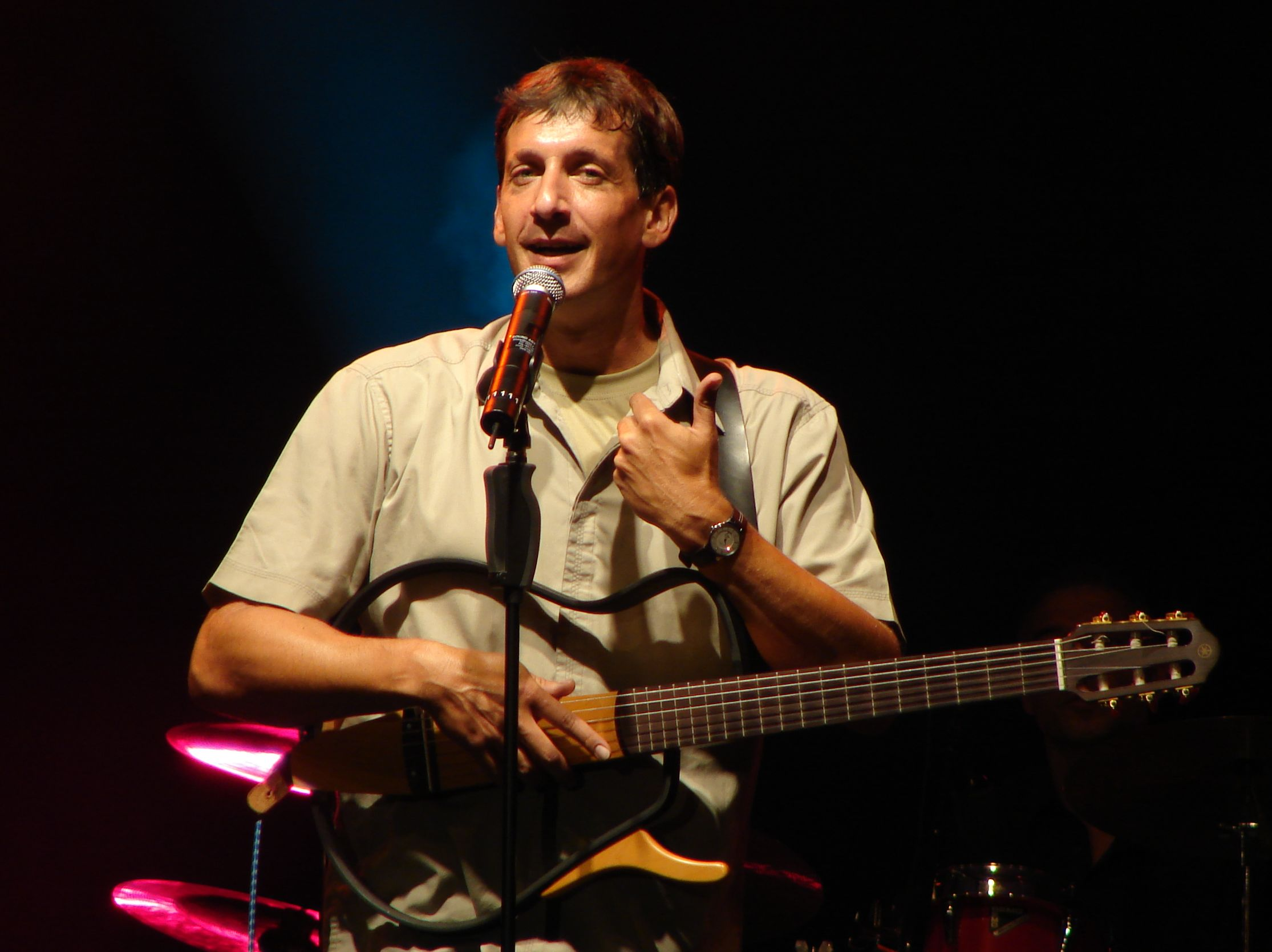 Viktor Gernot performs with his band "Viktor Gernot & His Best Friends" in Tulln on August 25, 2007.